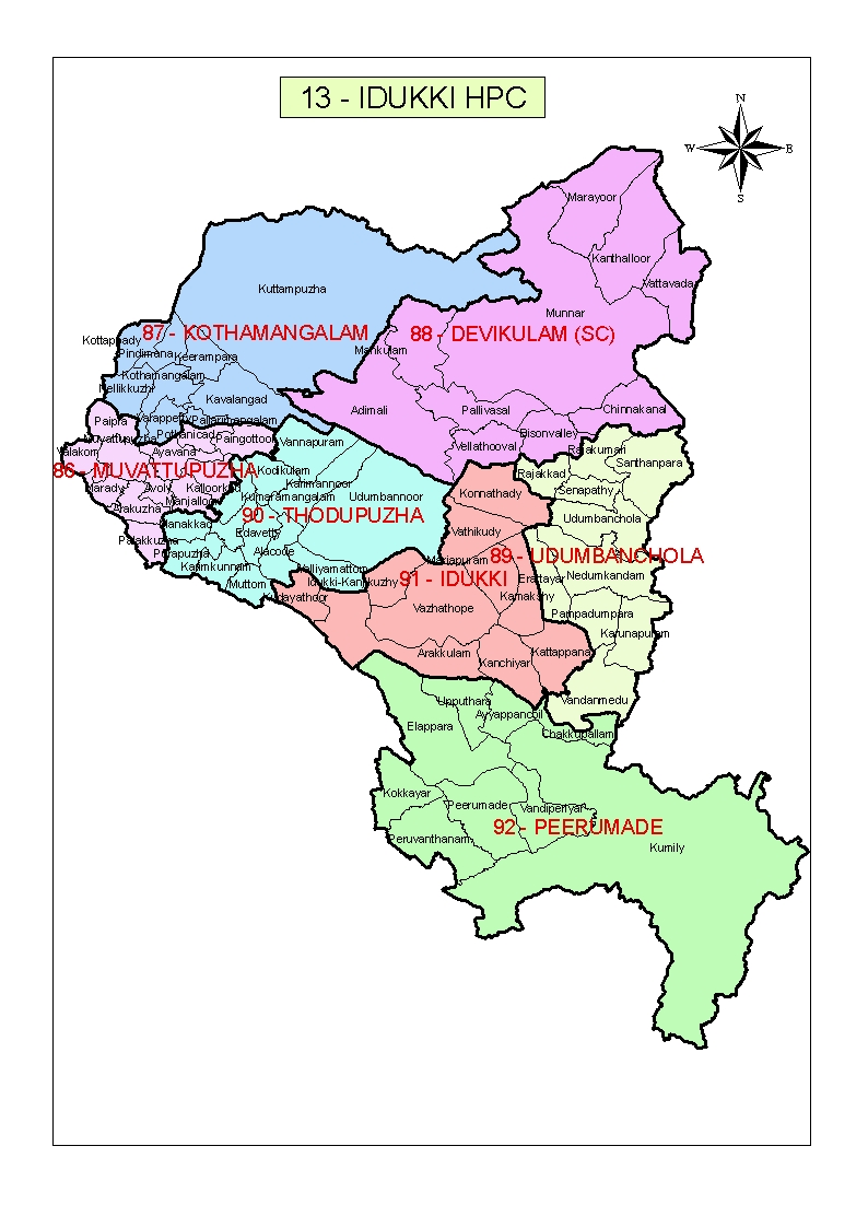 This is the map of Idukki Lok Sabha Constituency